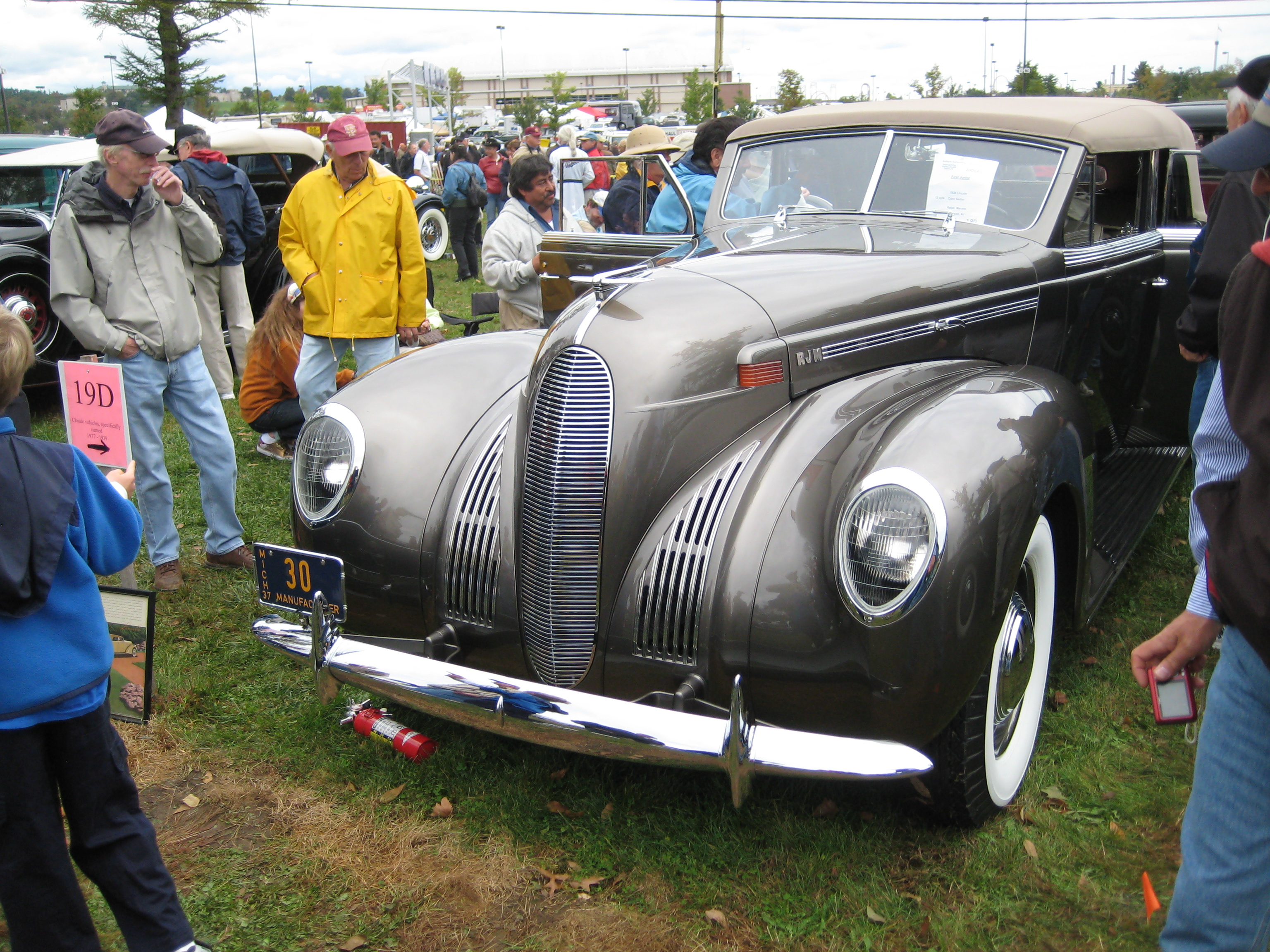 Judged car show at AACA Hershey 2009